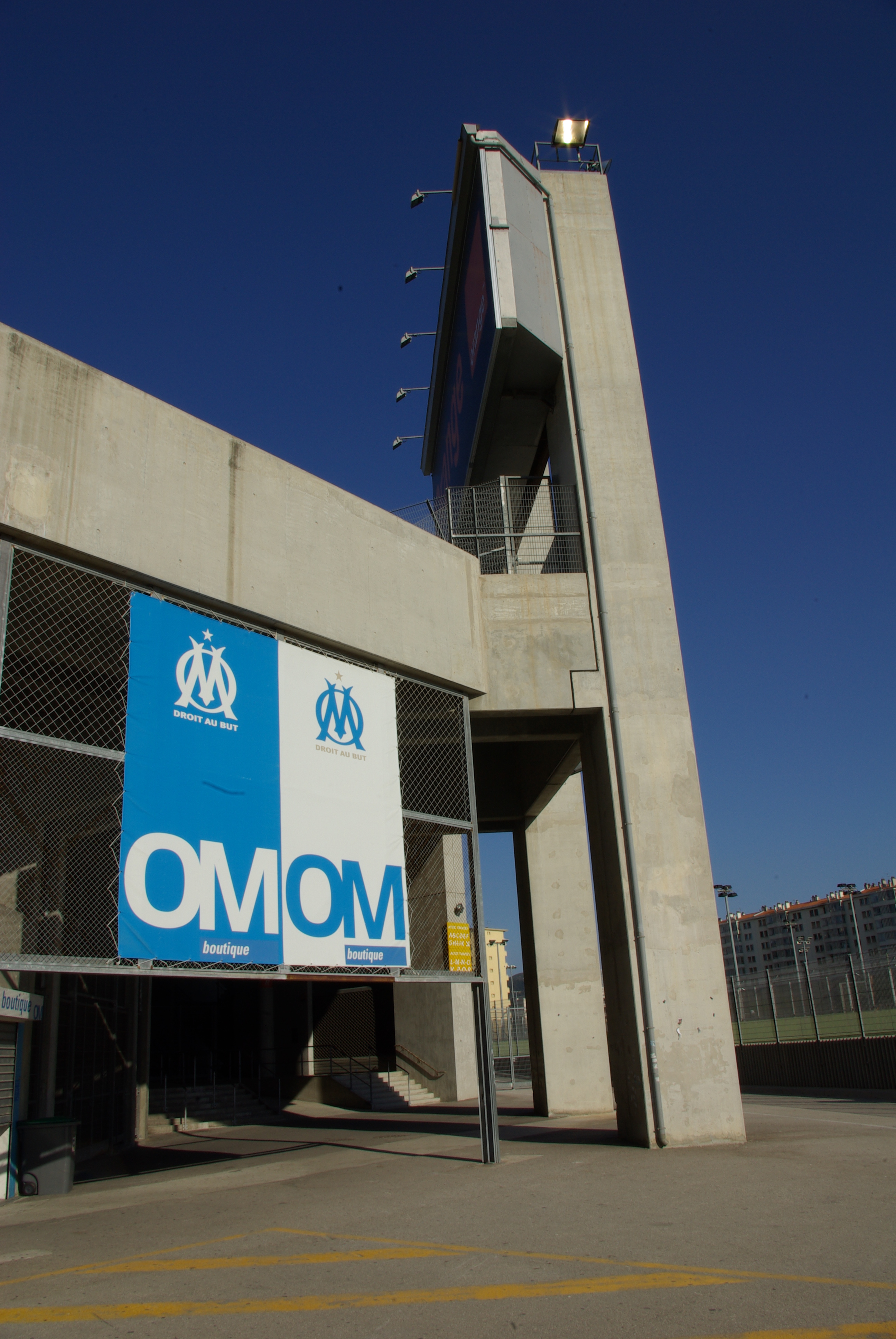 Stade Vélodrome shop